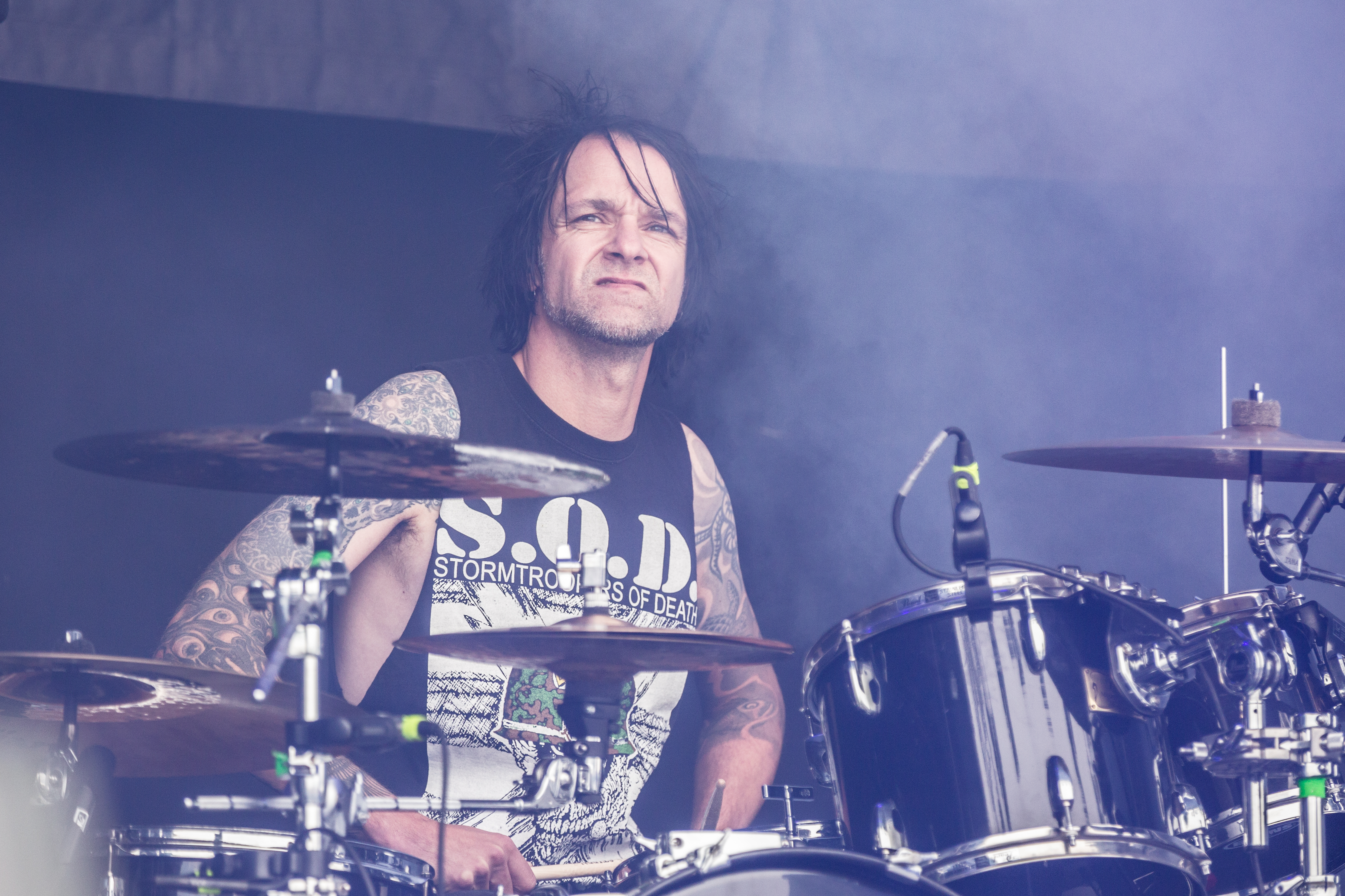 The Swedish death/thrash metal band Merciless at the Party.San Metal Open Air 2017 in Obermehler-Schlotheim/Germany.